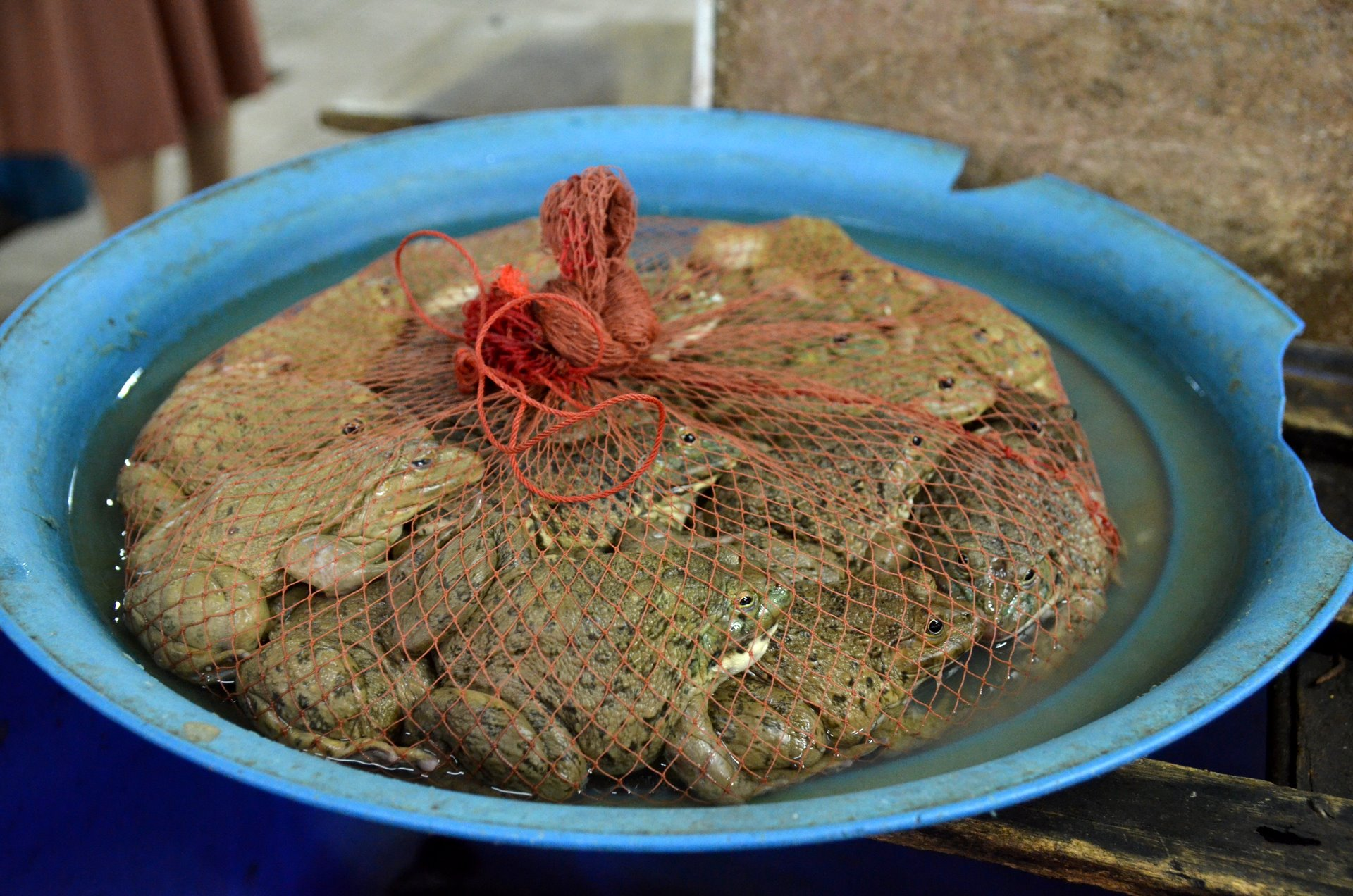 Kop (Thai script: กบ) is Thai for "frog". The photos shows a mesh bag full of live frogs waiting for a buyer at Chiang Mai's Thanin market. Frog meat (nearly the whole frog, not just the legs as in the West) in Thailand is mostly used in stir-fries and Thai curries. This species (Hoplobatrachus tigerinus, Indian bullfrog) is farmed, as is the American bullfrog (Rana catesbeiana).